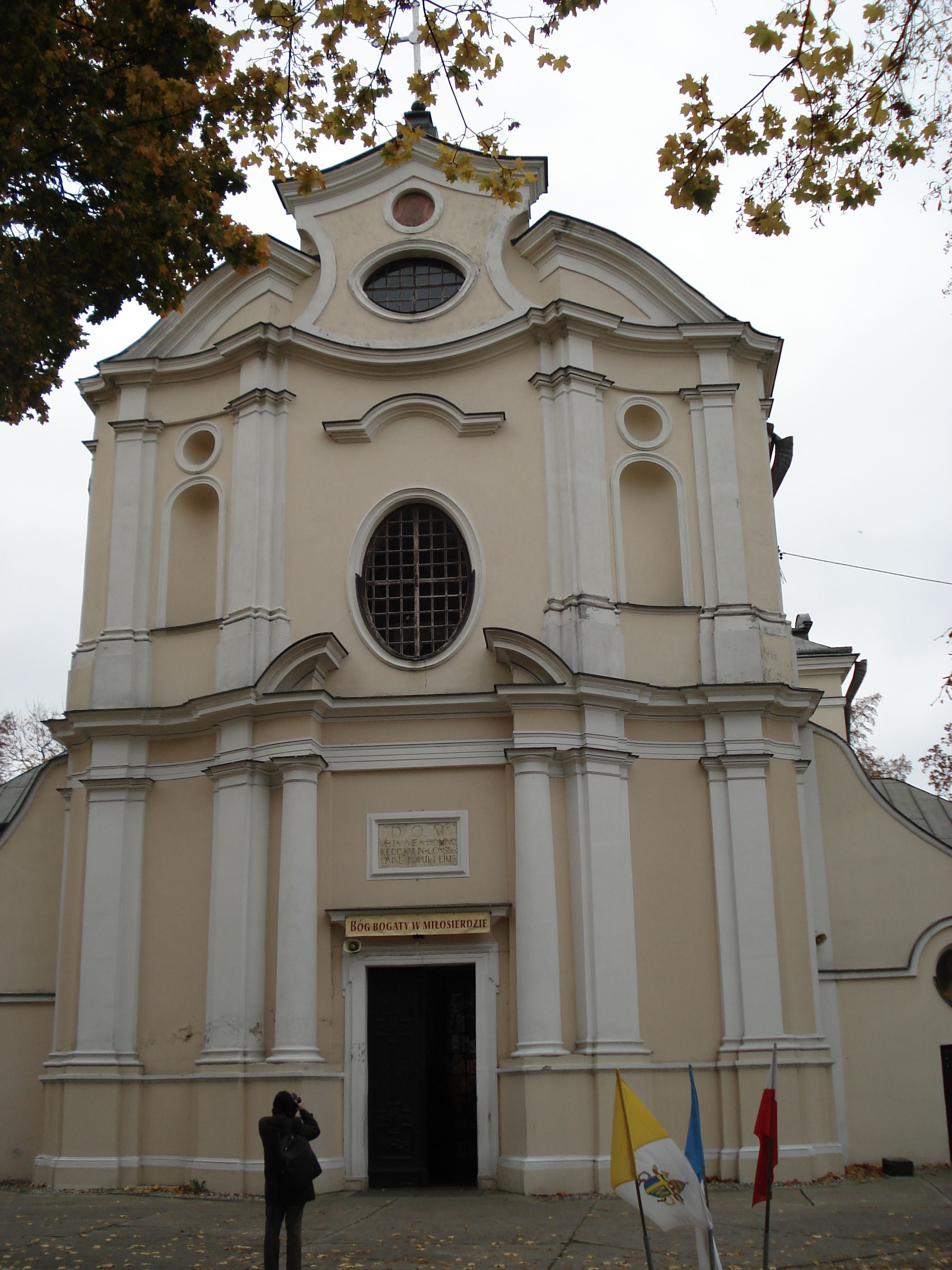 Parochial Church in Karczew, 18th c.